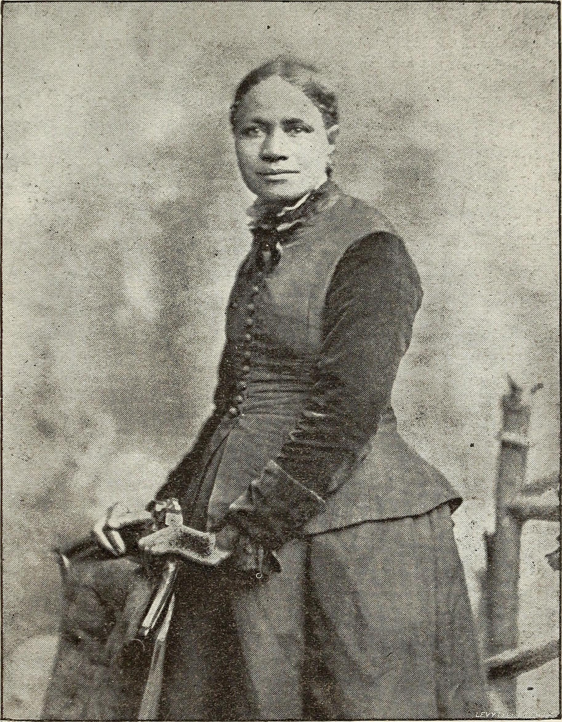 Title: Women of distinction : remarkable in works and invincible in character Year: 1893 (1890s) Authors: Scruggs, L. A. (Lawson Andrew), 1857-1914 Subjects: North Caroliniana African American women African Americans Women Publisher: Raleigh : L. A. Scruggs Text Appearing Before Image: ndensed narrative of the lifeand works of Mrs. Frances Ellen Watkins Harper thewriter makes no pretensions to a development of any newfacts not already known to the reading public, but sim-ply tells the old, old facts that seem each time that theyare told more wonderfully sweet because of theunderlying forces of real inspiration which the simplestory of her life contains. This wonderful woman wasborn in the city of Baltimore, Md., in 1825. ^^^parents were not slaves, and yet she was subjected to theinconveniences and ill influences of the slave law, whichheld within its grasp both bond and free. Before herthird year the dearest of all friends—mother—had beentaken from her by death; being the only child, she cameunder the watch-care of an aunt who cared for her dur-ing her earlier years and sent her to school to an uncle.Rev. William Watkins, until she was thirteen years old.After this the burden of earning her own bread was laidupon her own shoulders; certainly a very heavy burden Text Appearing After Image: JA^z^^ciJ W. (yr.